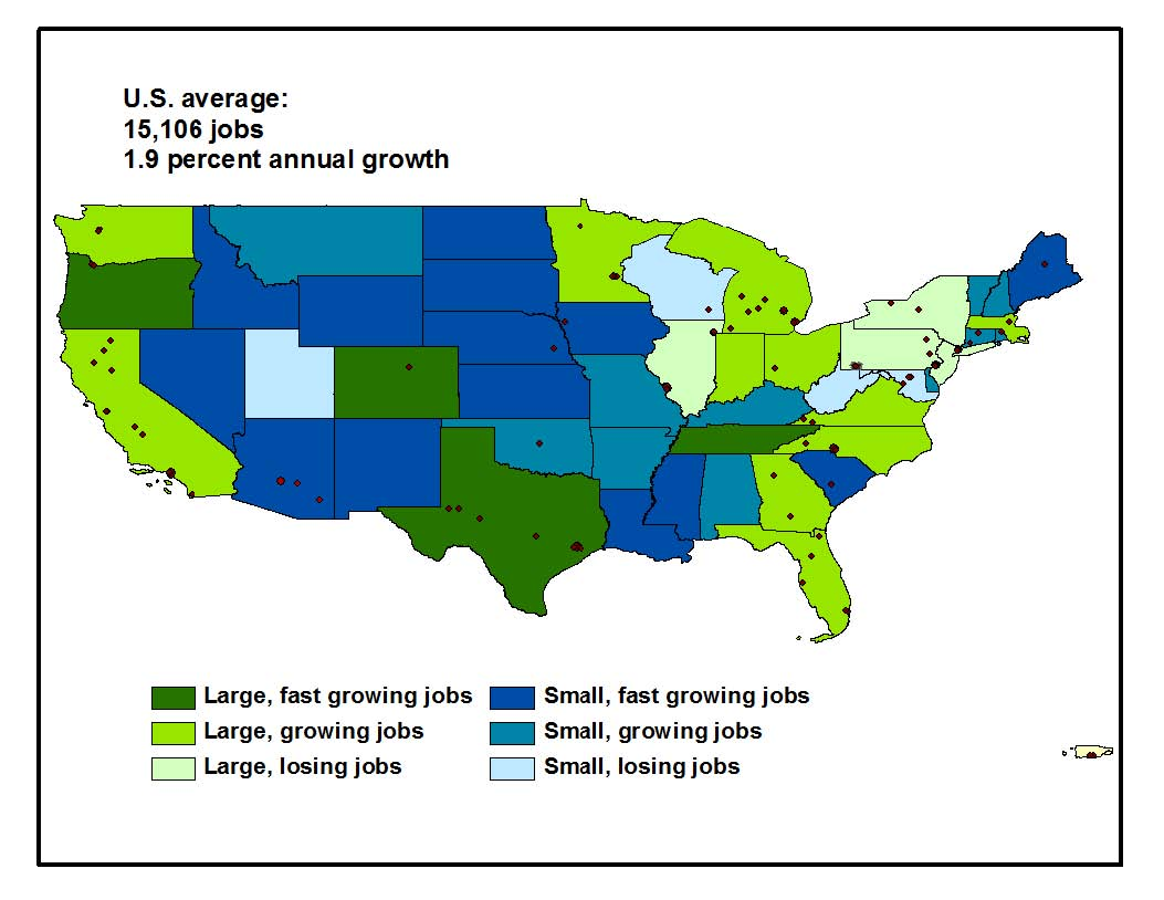 This map shows the growth in clean jobs from 1998 to 2007 in all states, using data from a report by the Pew Charitable Trusts. It also shows the location of PUMAs served by Pathways out of Poverty grantees.